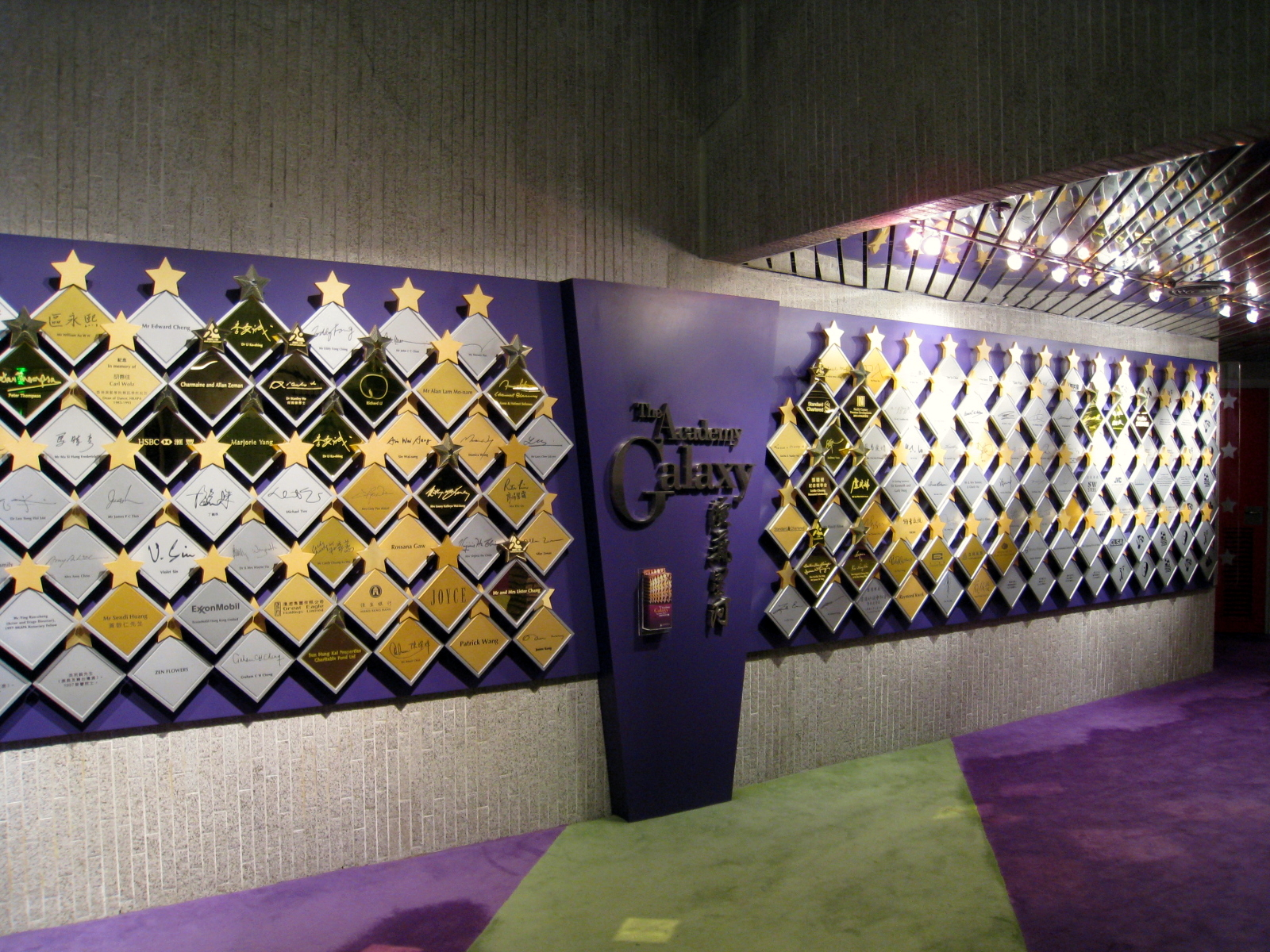 Hong Kong Academy For Performing Arts The Academy Galaxy